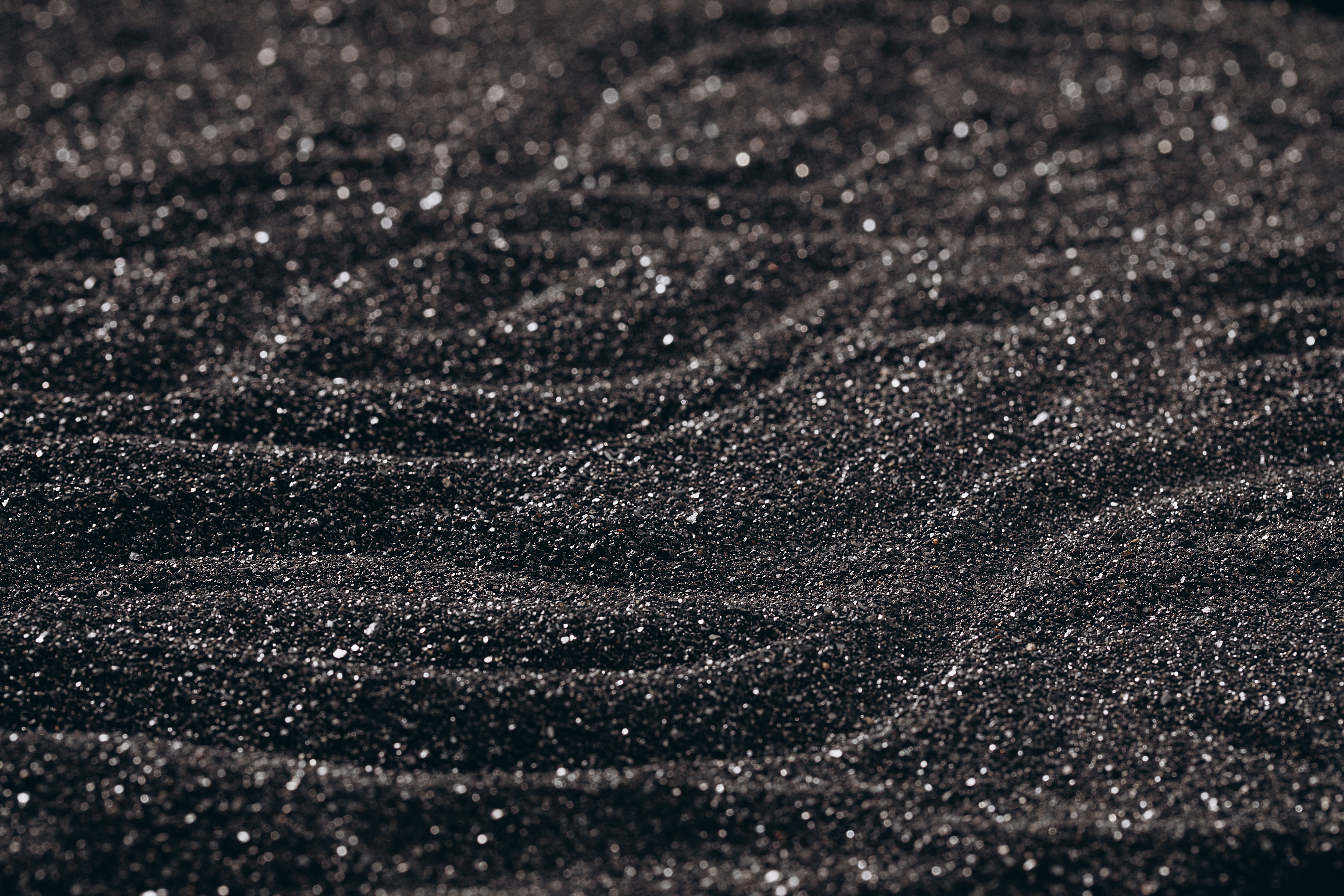 Ilmenite, which is mined by PKF Velta LLC